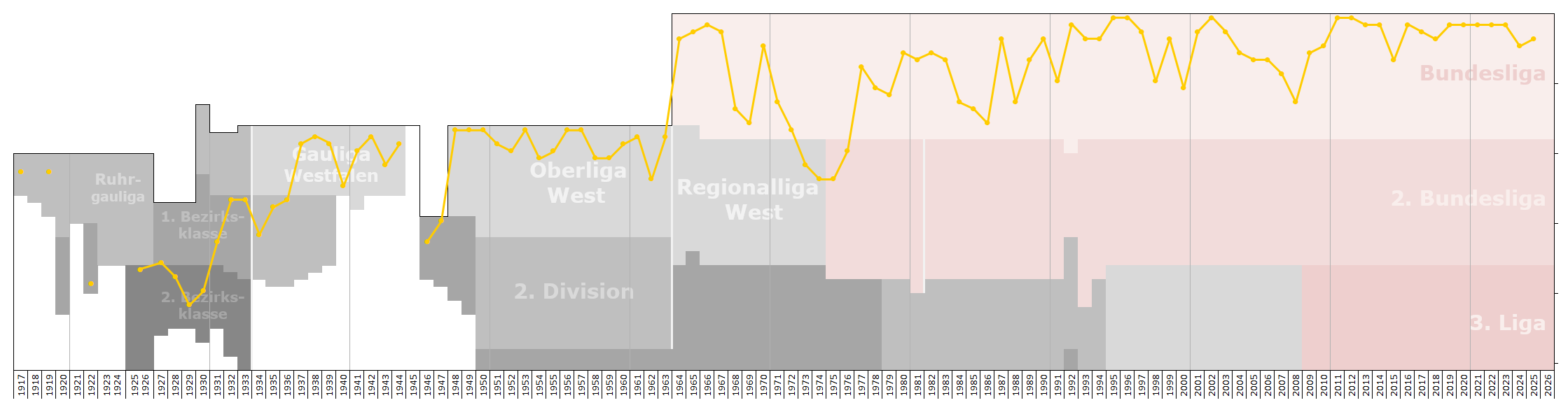 Chart of end-season table positions of Borussia Dortmund in the football league system of Germany. Data source: RSSSF, wikipedia, f-archiv.de, fussball.de